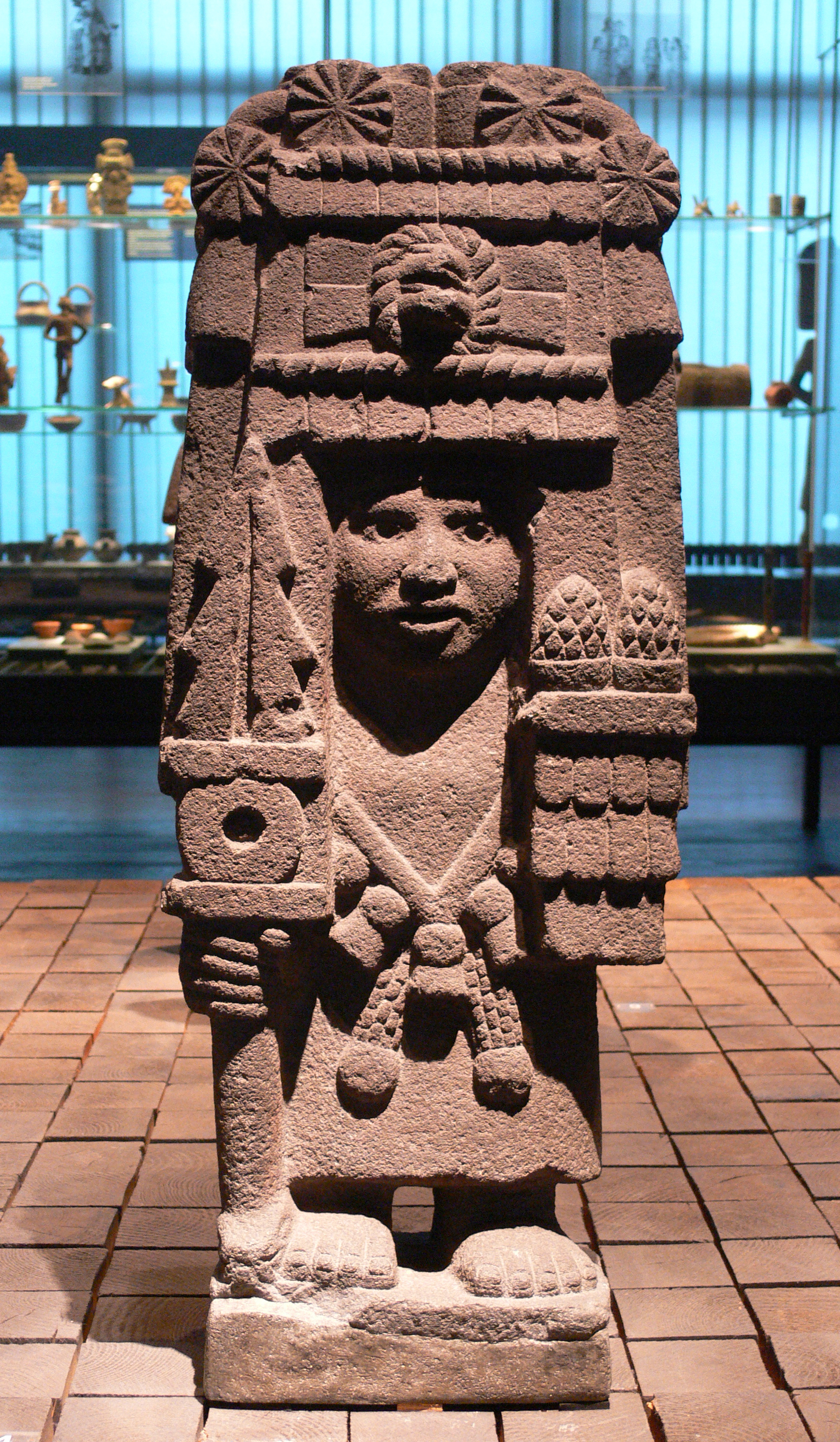 Corn goddess Chicomecoatl; Aztec stone sculpture; Ethnological Museum, Berlin, Germany